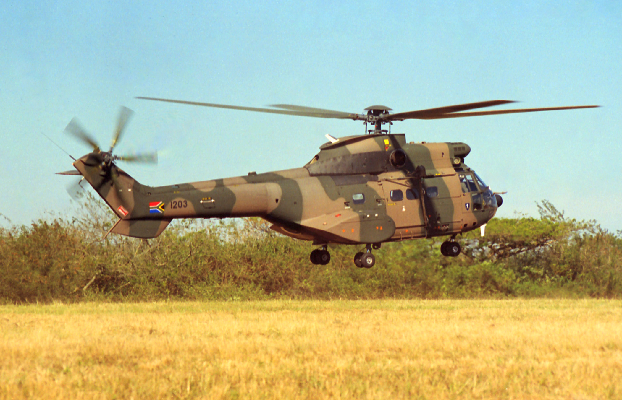 SAAF Oryx 1203